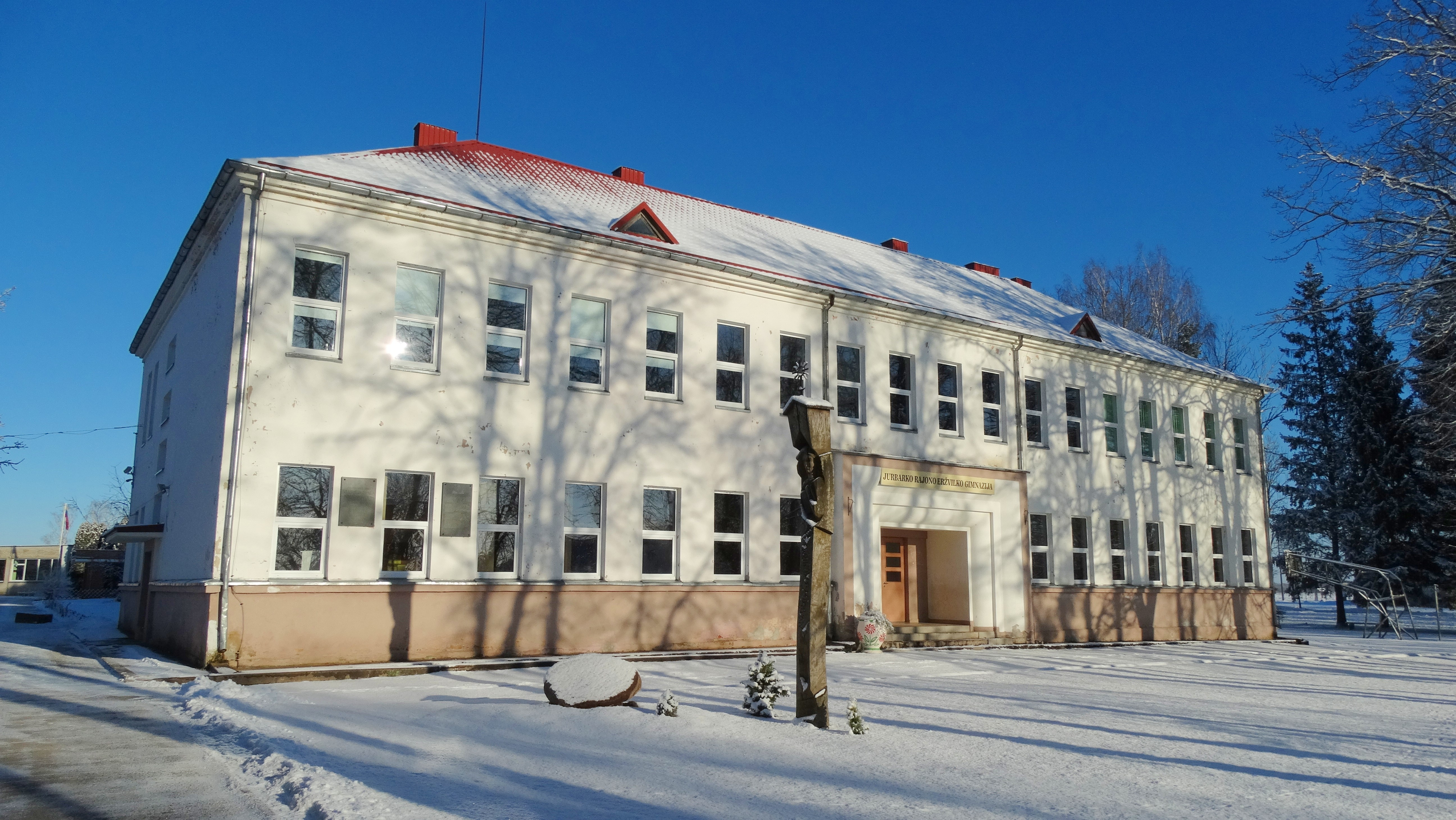 Gymnasium, Eržvilkas, Jurbarkas, Lithuania